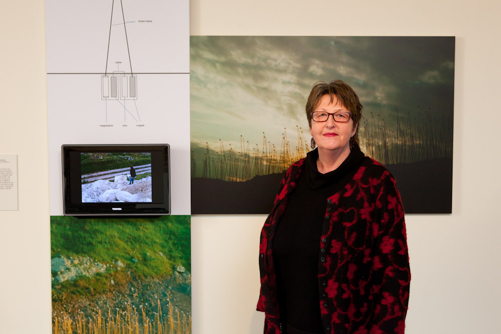 Photograph of Brigitte Hitschler, artist, posing with her work "Energy Field 1", at the opening for the 2011 Elemental Matters exhibit at the Chemical Heritage Foundation, Philadelphia, PA, USA, 4 February 2011.